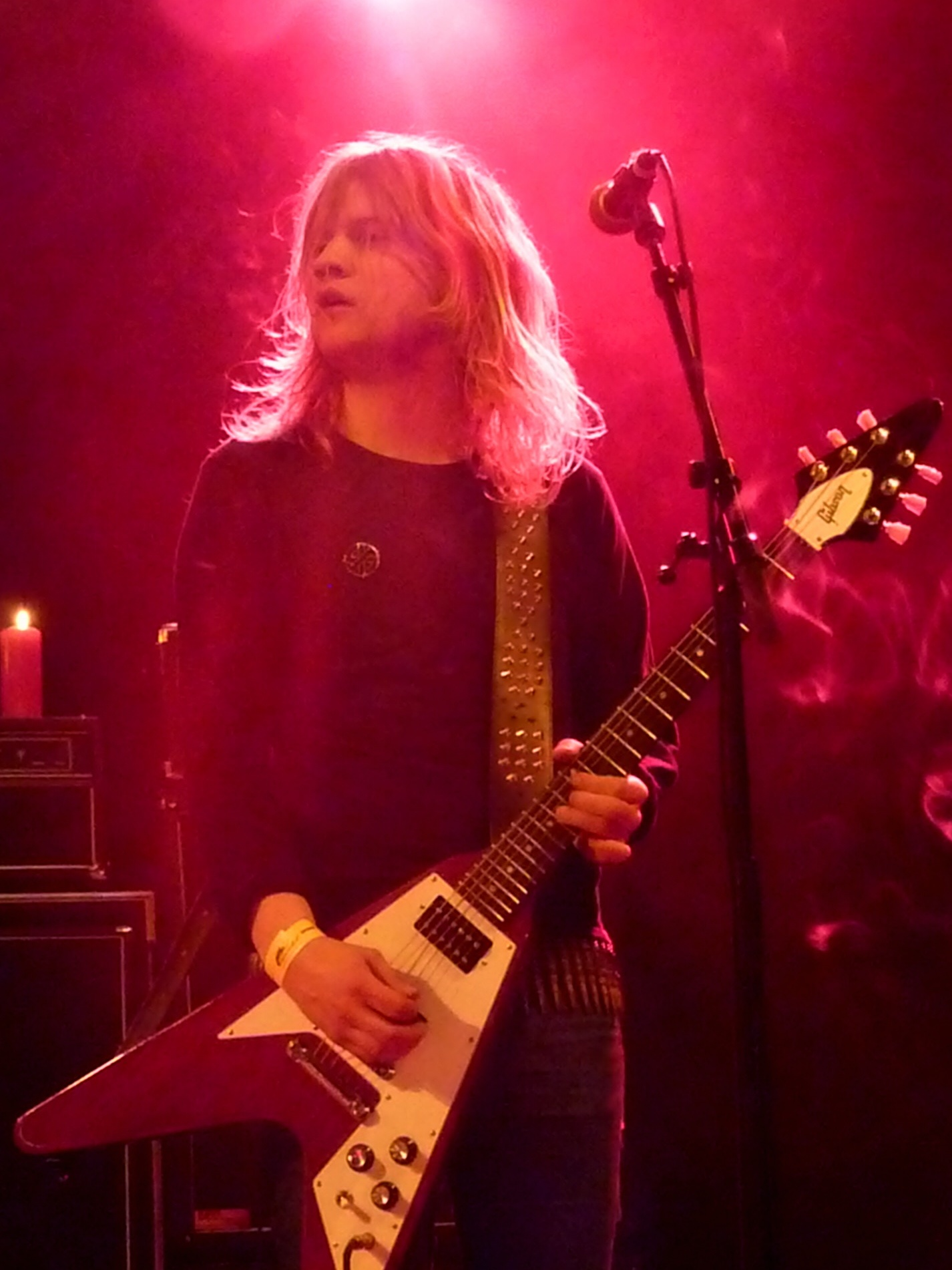 In Solitude actuando en el Hammer of Doom festival de 2011.